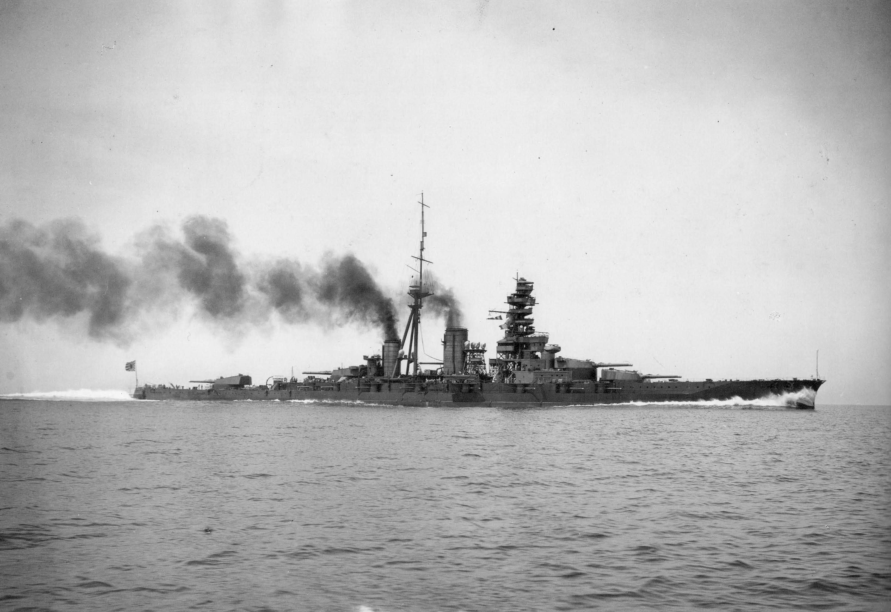 Imperial Japanese Navy battleship Haruna undergoes trials after reconfiguration from a battlecruiser to a battleship.